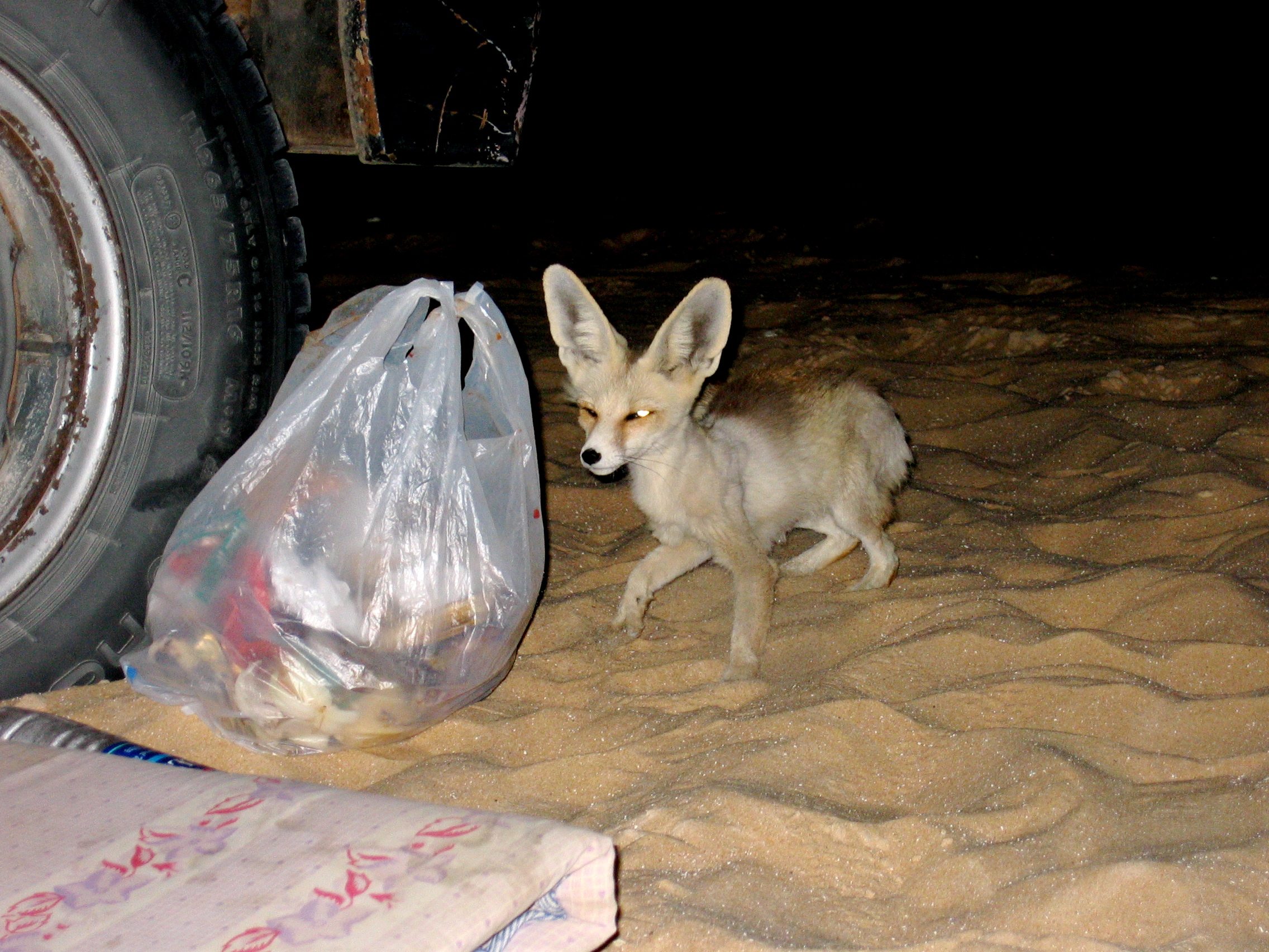 Fennec Fox, Western Desert, Egypt. We caught this thing stealing anything he could. Eventually he ended up with only a sock!